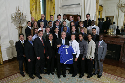 President George W. Bush stands with members of the University of California, Santa Barbara Men's Soccer 2006 Championship Team Monday, June 18, 2007 at the White House, during a photo opportunity with the 2006 and 2007 NCAA Sports Champions.